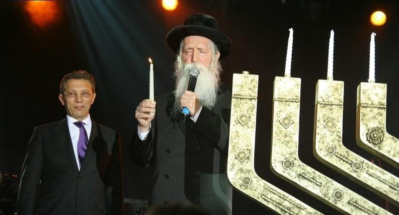 Event: Yitzchak Dovid Grossman lighting the Hanukkah candles (2008)